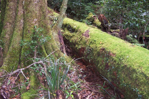 Nothofagus moorei, Mount Banda Banda